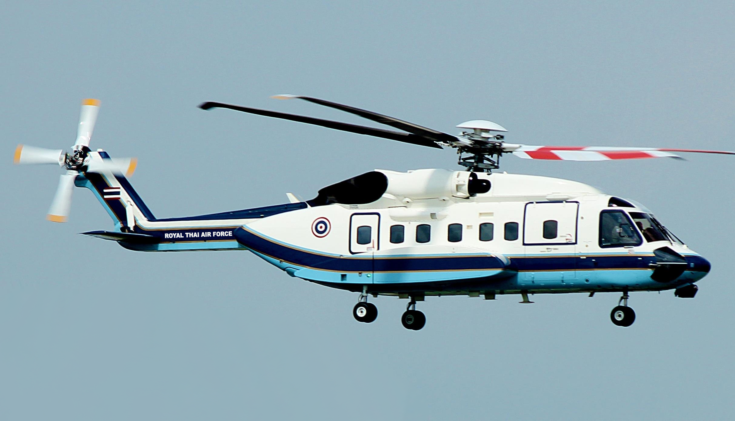 cropped version of this file